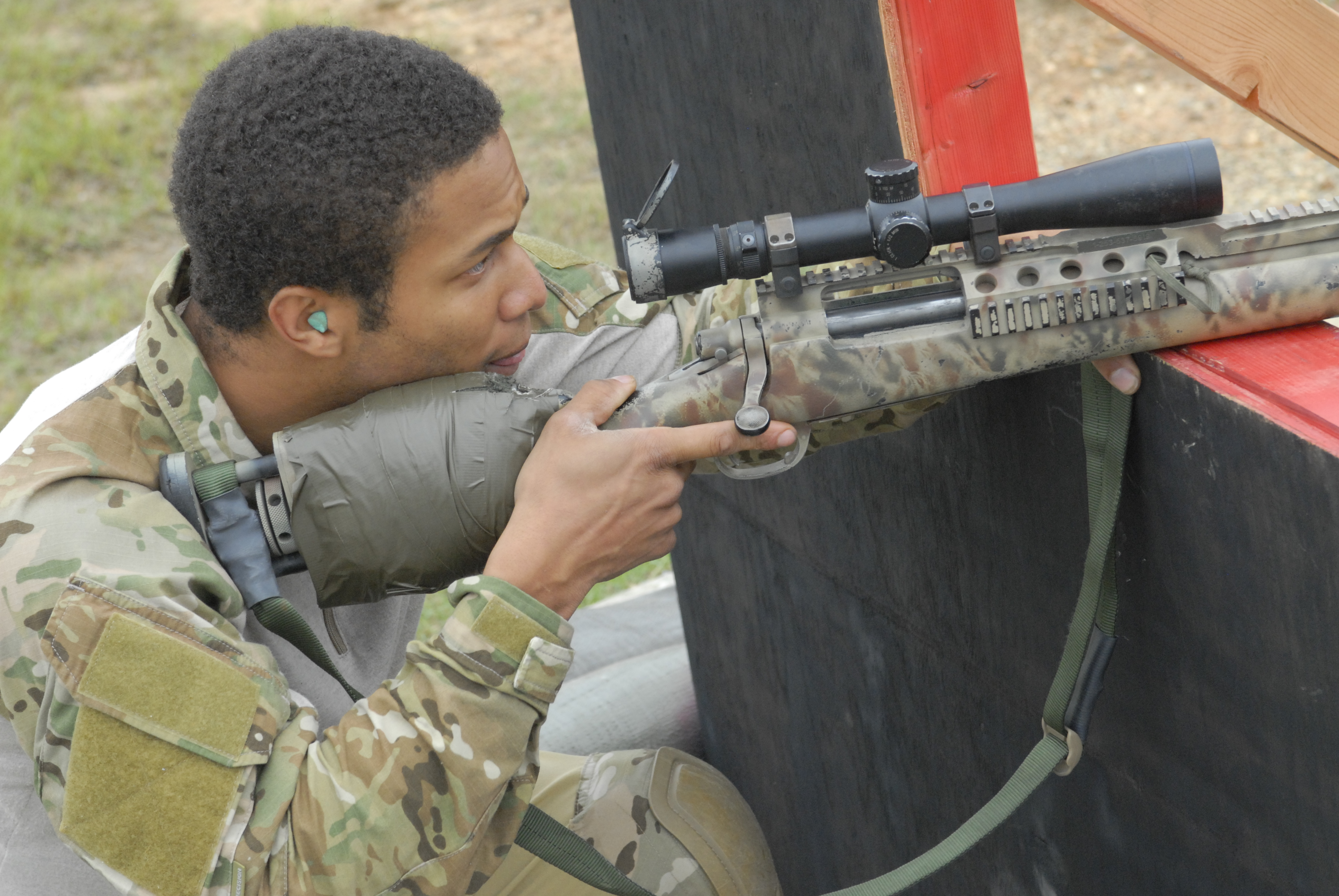 Sgt. Nicholas Irving, of 3rd Battalion, 75th Ranger Regiment, takes aim during the "Defensive Shoot" event at Wagner Range on Fort Benning, Ga., during the Ninth annual U.S. Army International Sniper Competition held Oct. 15-22. See more at World's premier snipers converge on Fort Benning